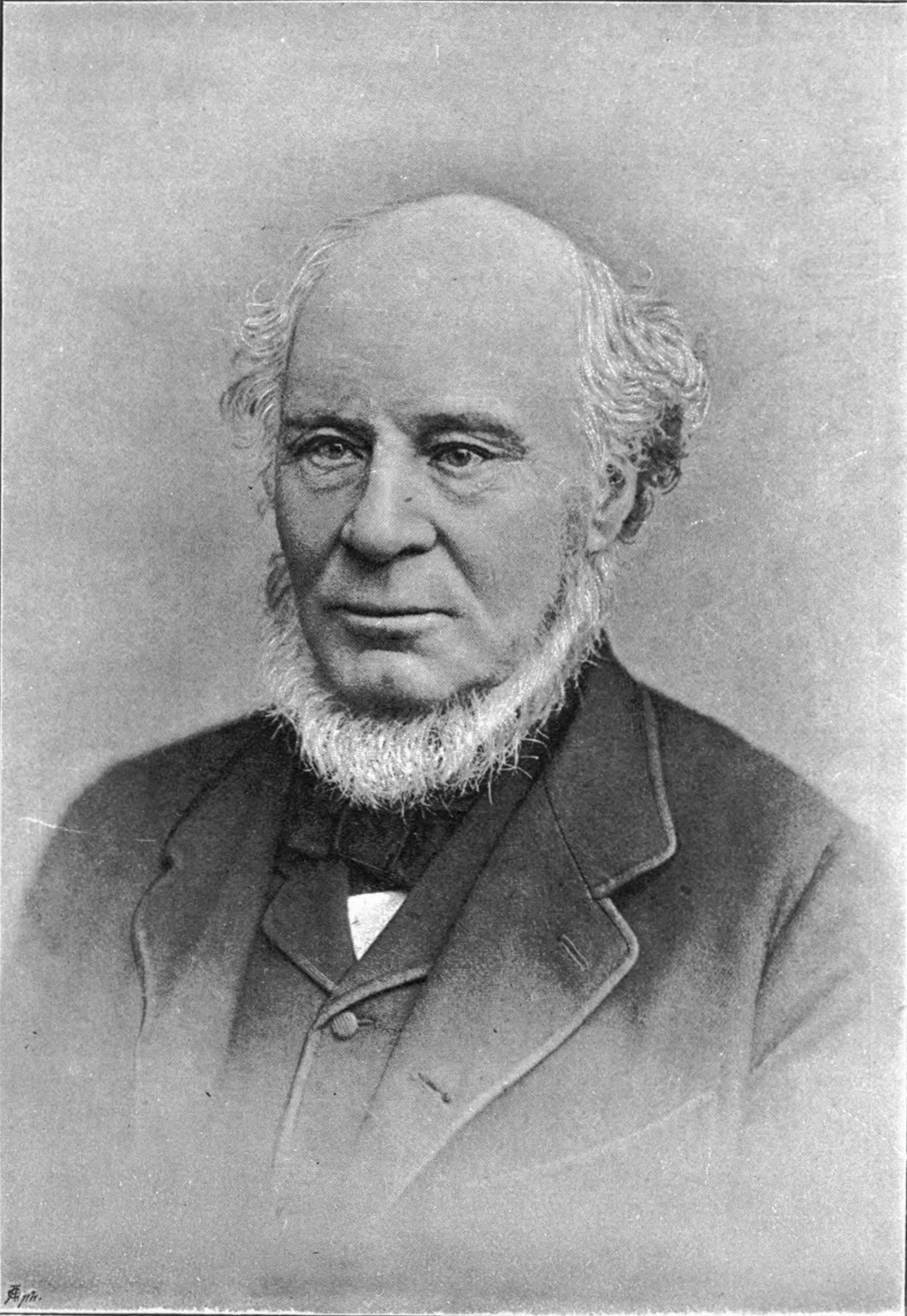 Forth Bridge (1890) Portrait of John Fowler, Plate 1